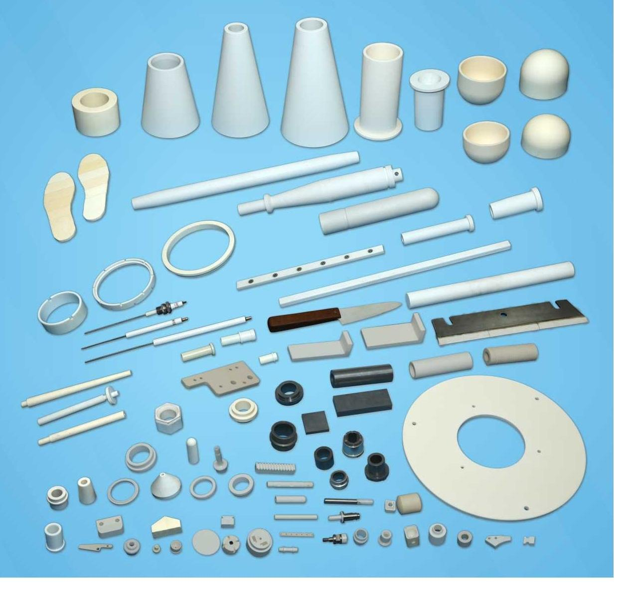 Products